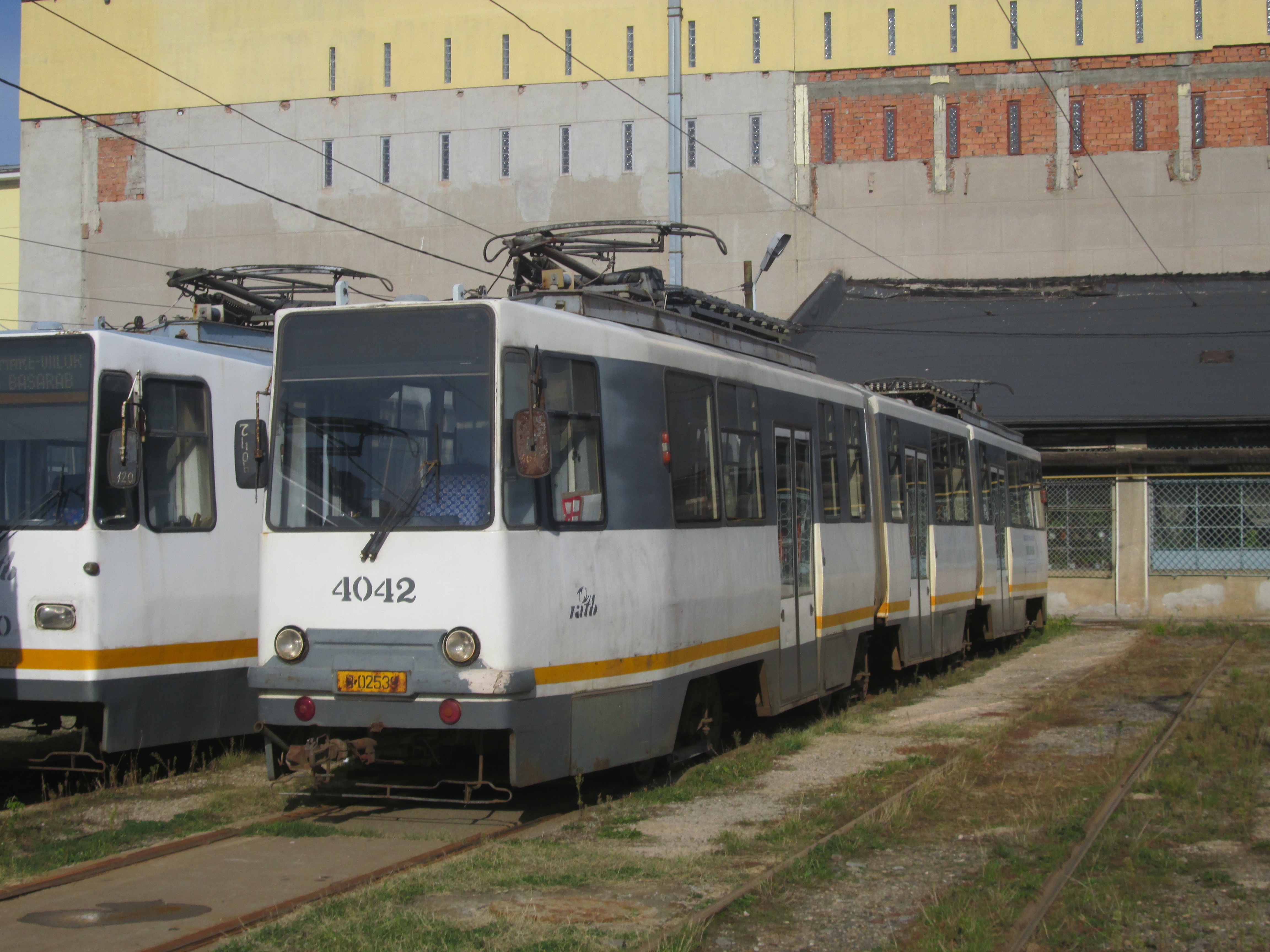 Tram number 4042 (type V3B) in Victoria tram depot. This is the succesor of the V2B tram of the same number, as seen earlier in a dilapidated state in the same depot.